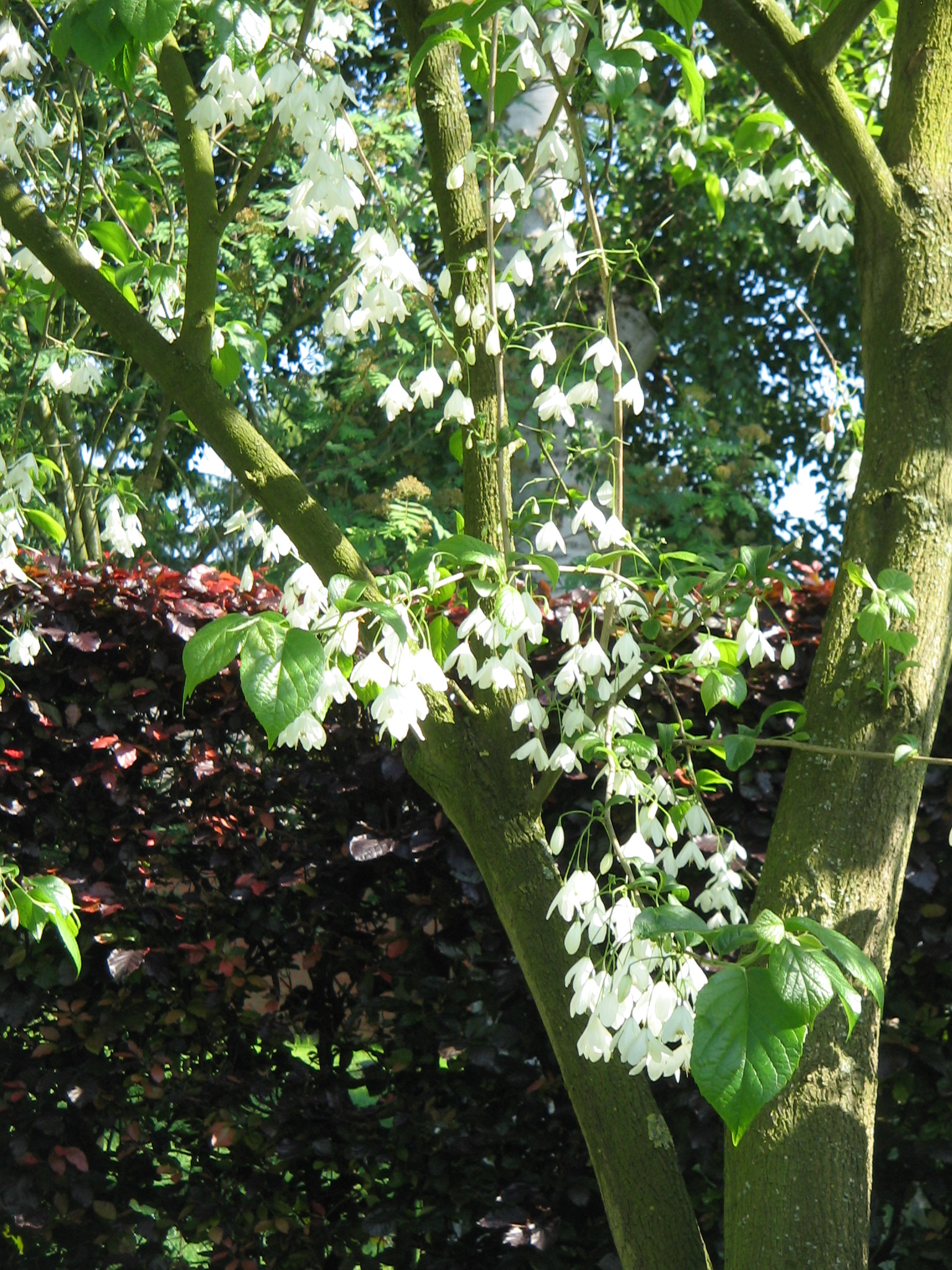 Halesia carolina